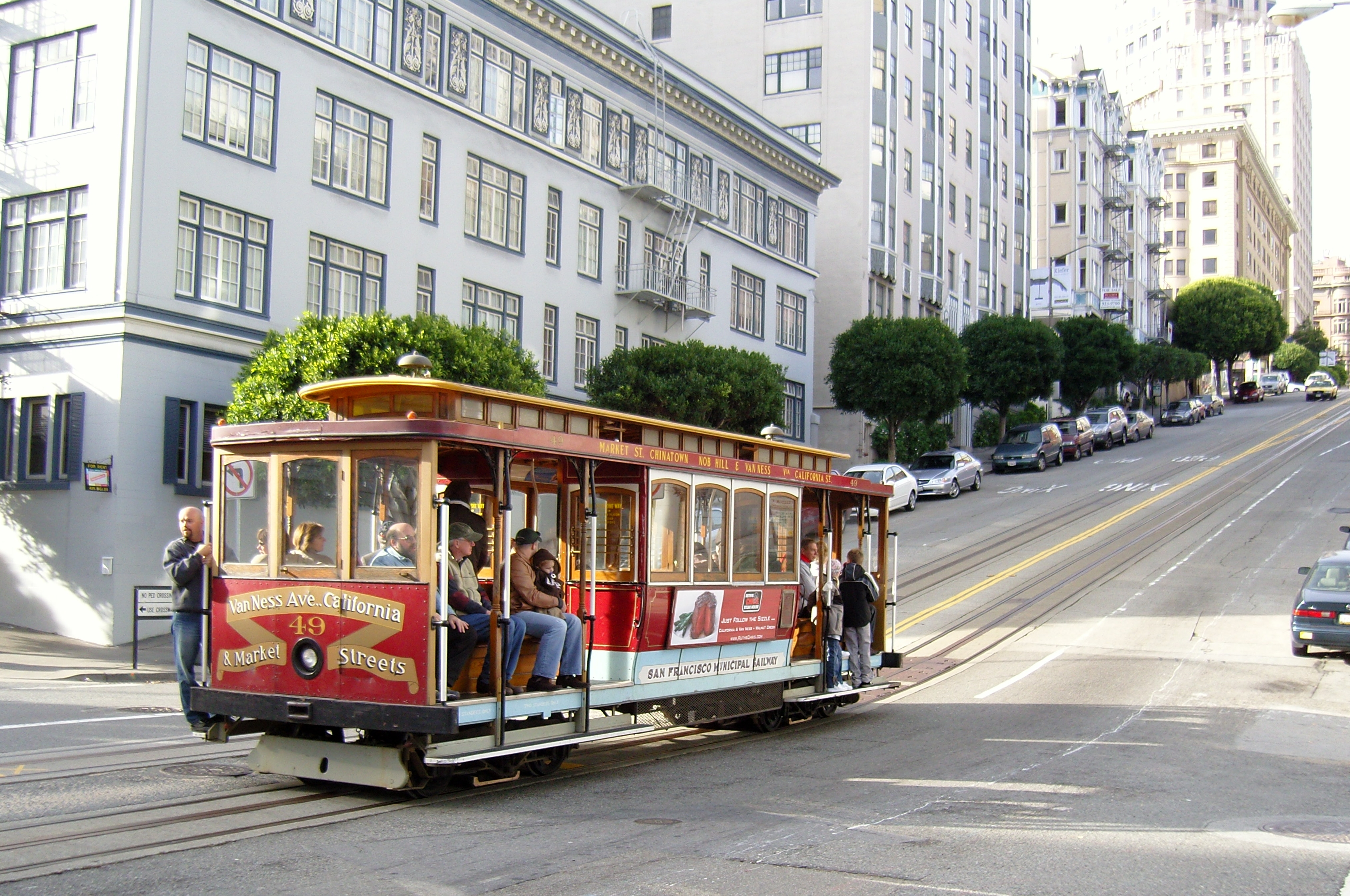 Cable car on California Street at Stockton Street, San Francisco, California.